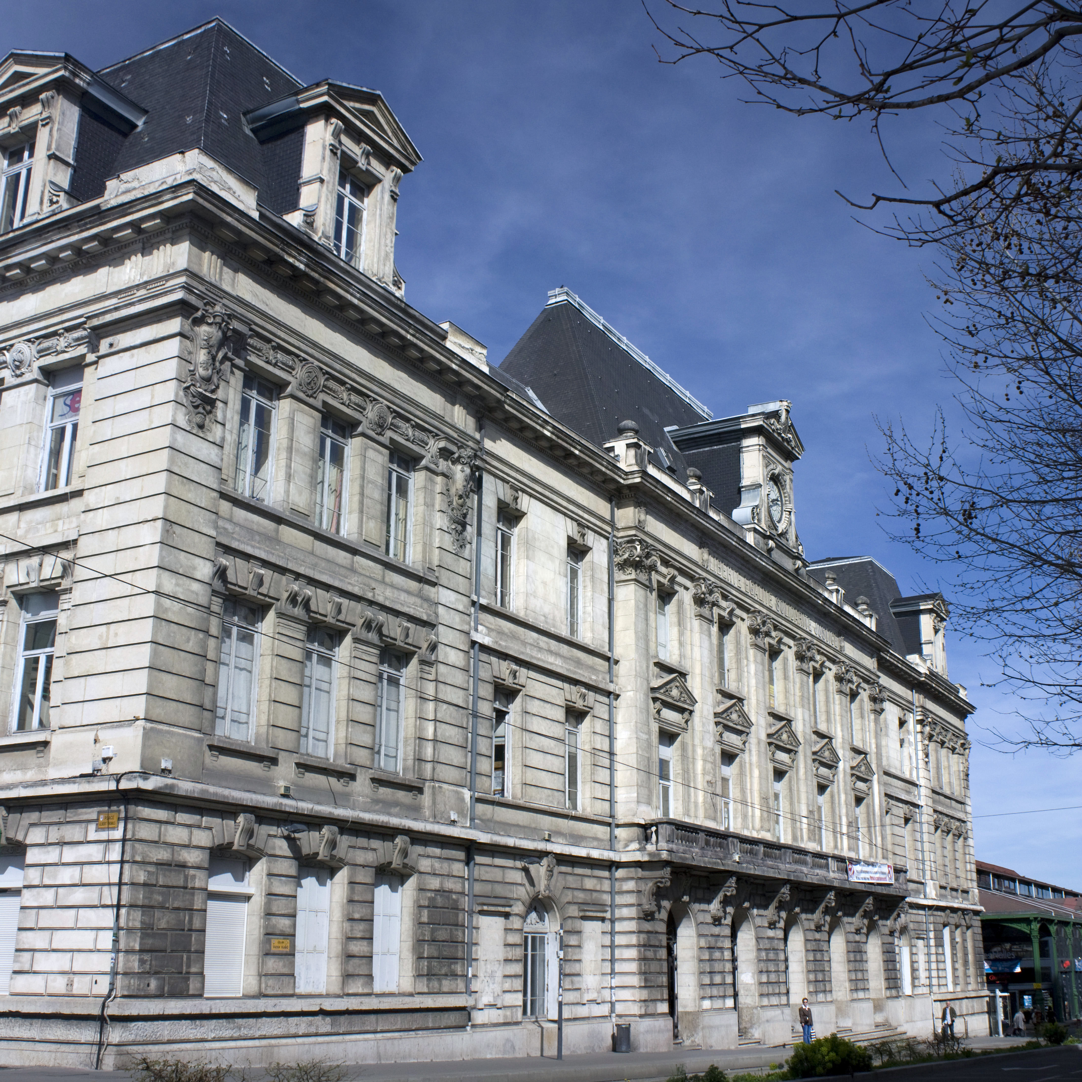 Union house. .